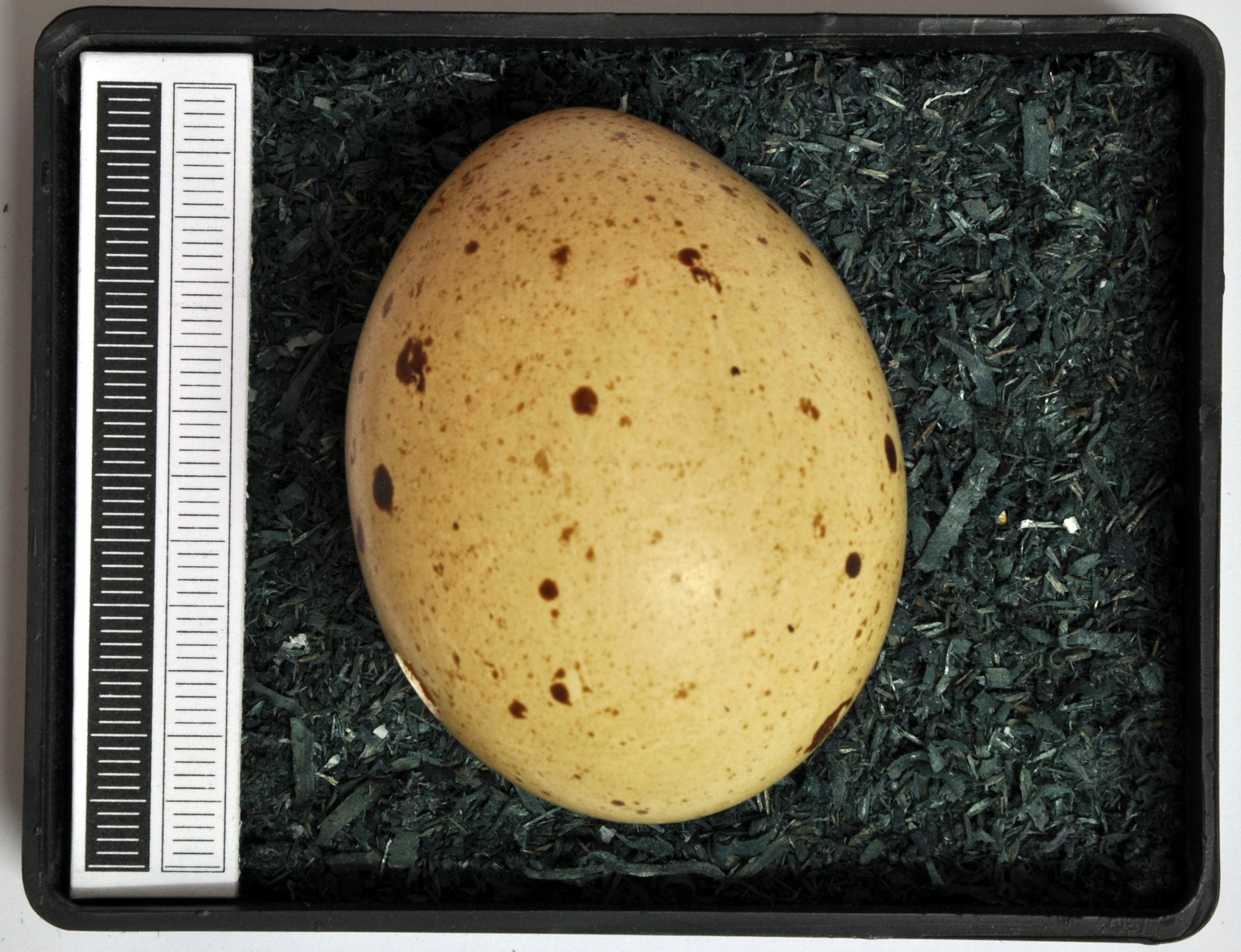 Western capercaillie Tetrao urogallus, egg, Coll. Museum Wiesbaden, Origin: Ämäl, Sweden, 22.05.1963, leg. W. Abelmann